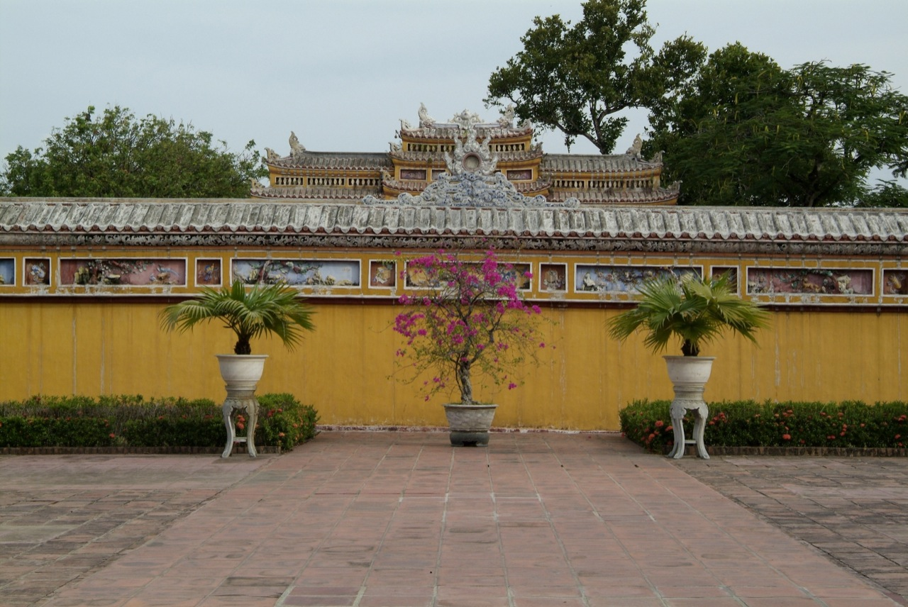 The long screen is in front of Diên-Thọ imperial palace at Hue, Vietnam.